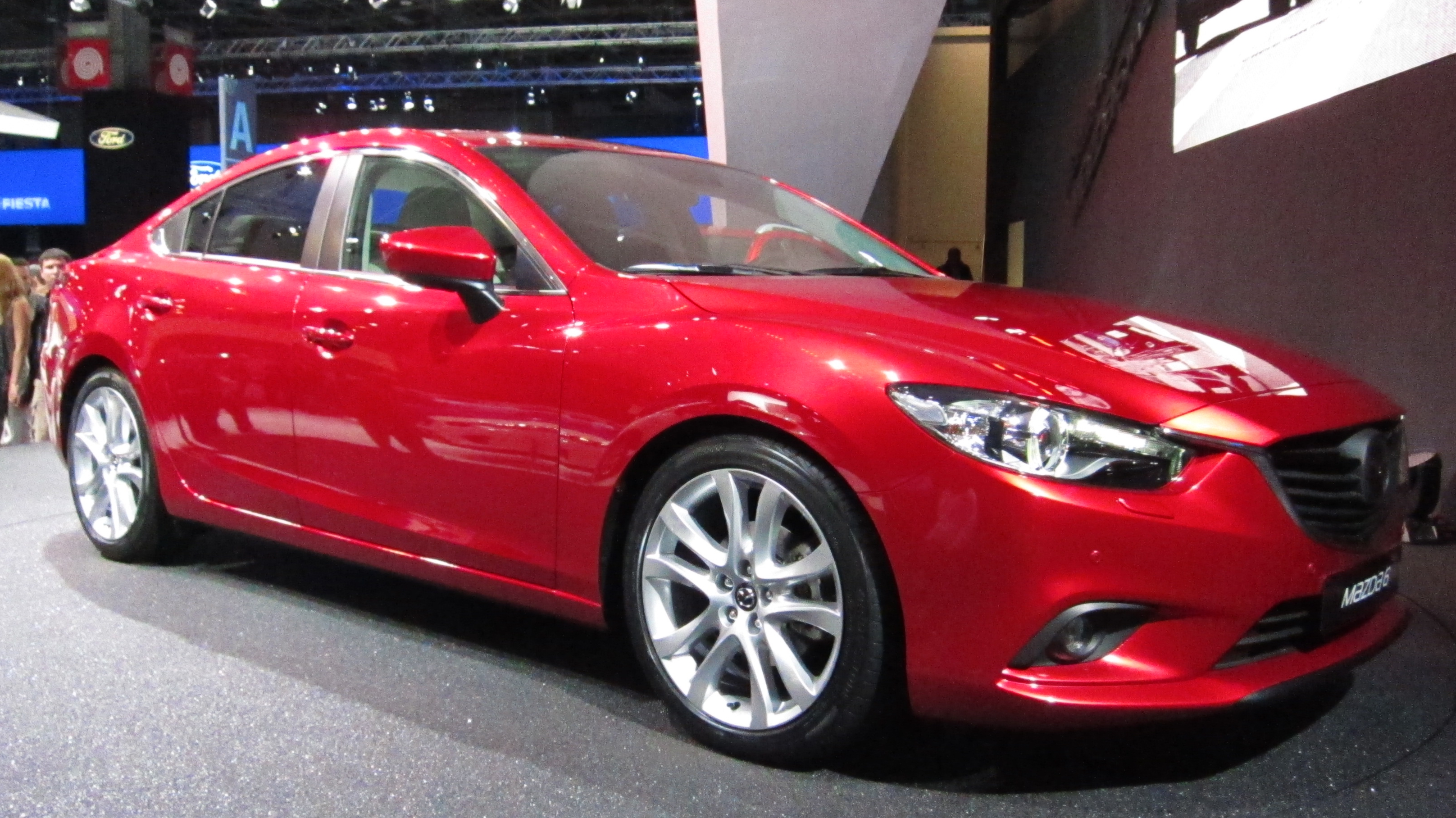 Mazda6 III at Mondial de l'Automobile Paris 2012